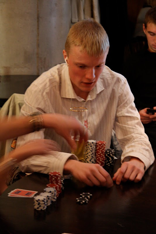 Madis Erit @ Some Live Poker Event